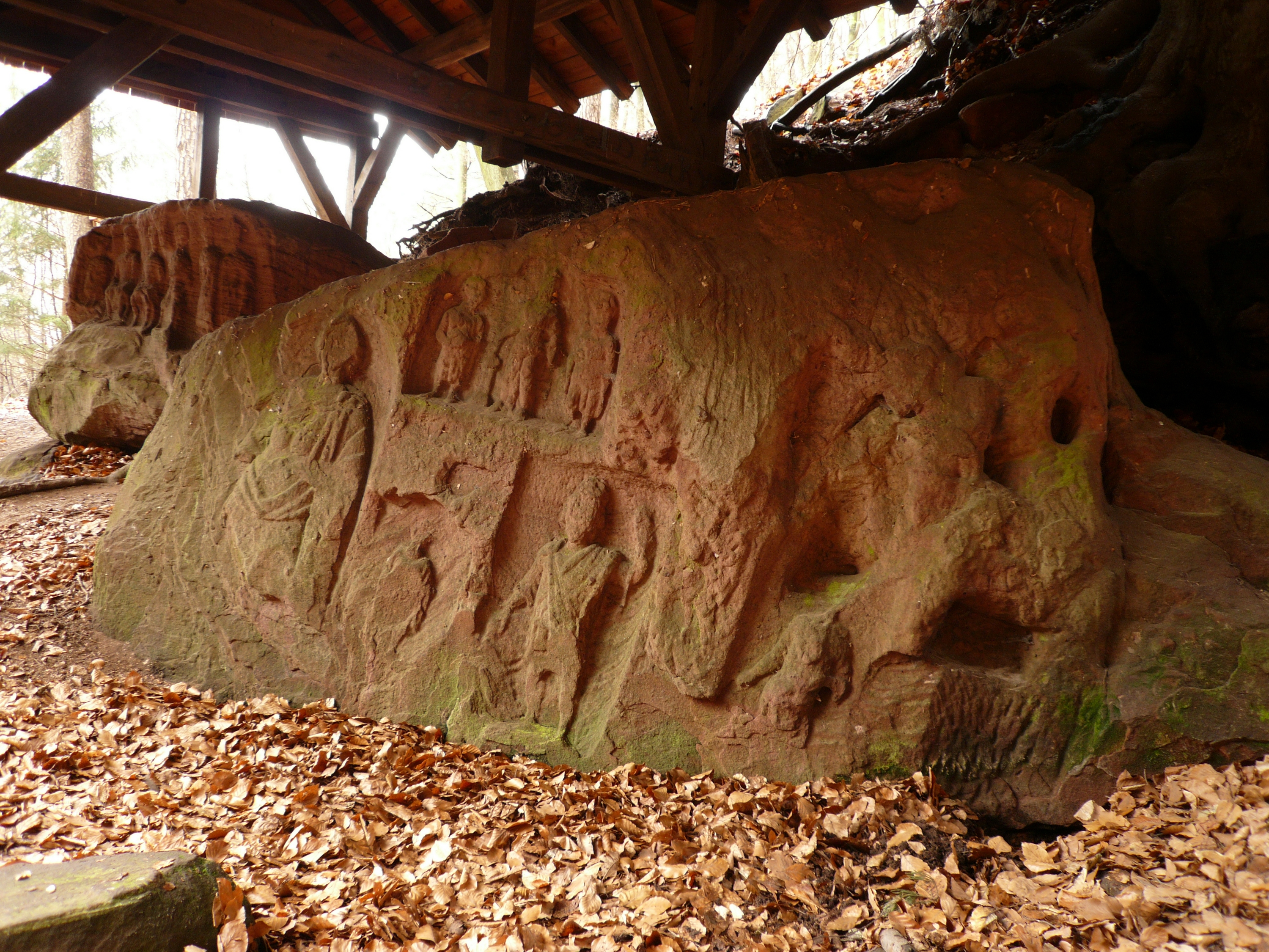 2nd/3rd century Roman reliefs at the Gallo-Roman sanctuary at Heidenfelsen ("heathen-rock"), near Kindsbach, Pfalz, Germany. The sanctuary is at a natural spring, which the pre-historical peoples of the region (called 'Celtae' by the Romans) held to be sacred. The water from the spring was deemed to cure eye infections. The Romans subsequently adopted these beliefs, and the spring remained a pilgrimage site until the 7th century. A chemical analysis in the 1940s identified the water to be rich in boron, which has anti-bacterial properties.